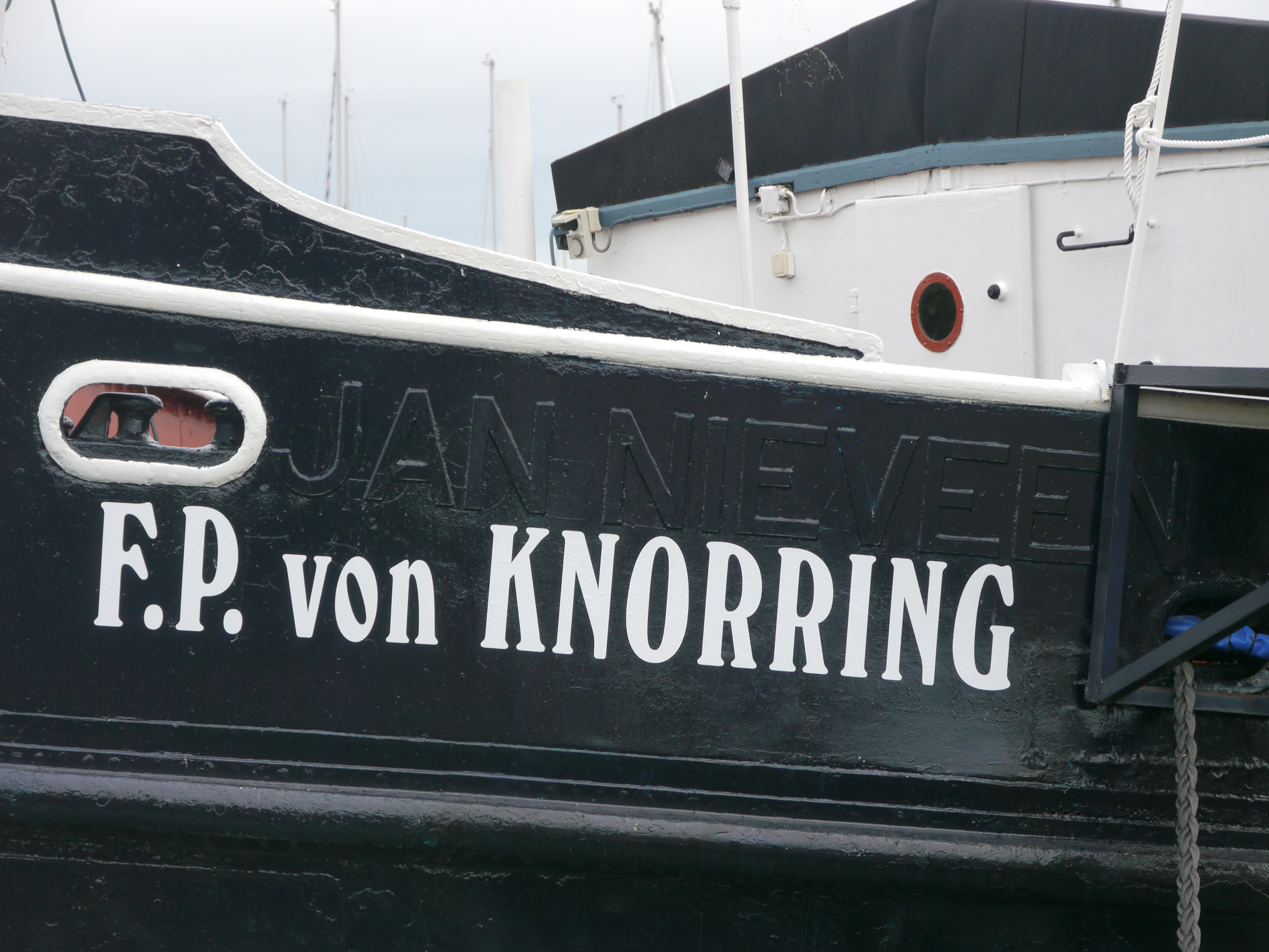 Name on the bow of the restaurant ship F.P. von Knorring in Mariehamn, Åland, showing clearly the original name 'Jan Nieveen'.